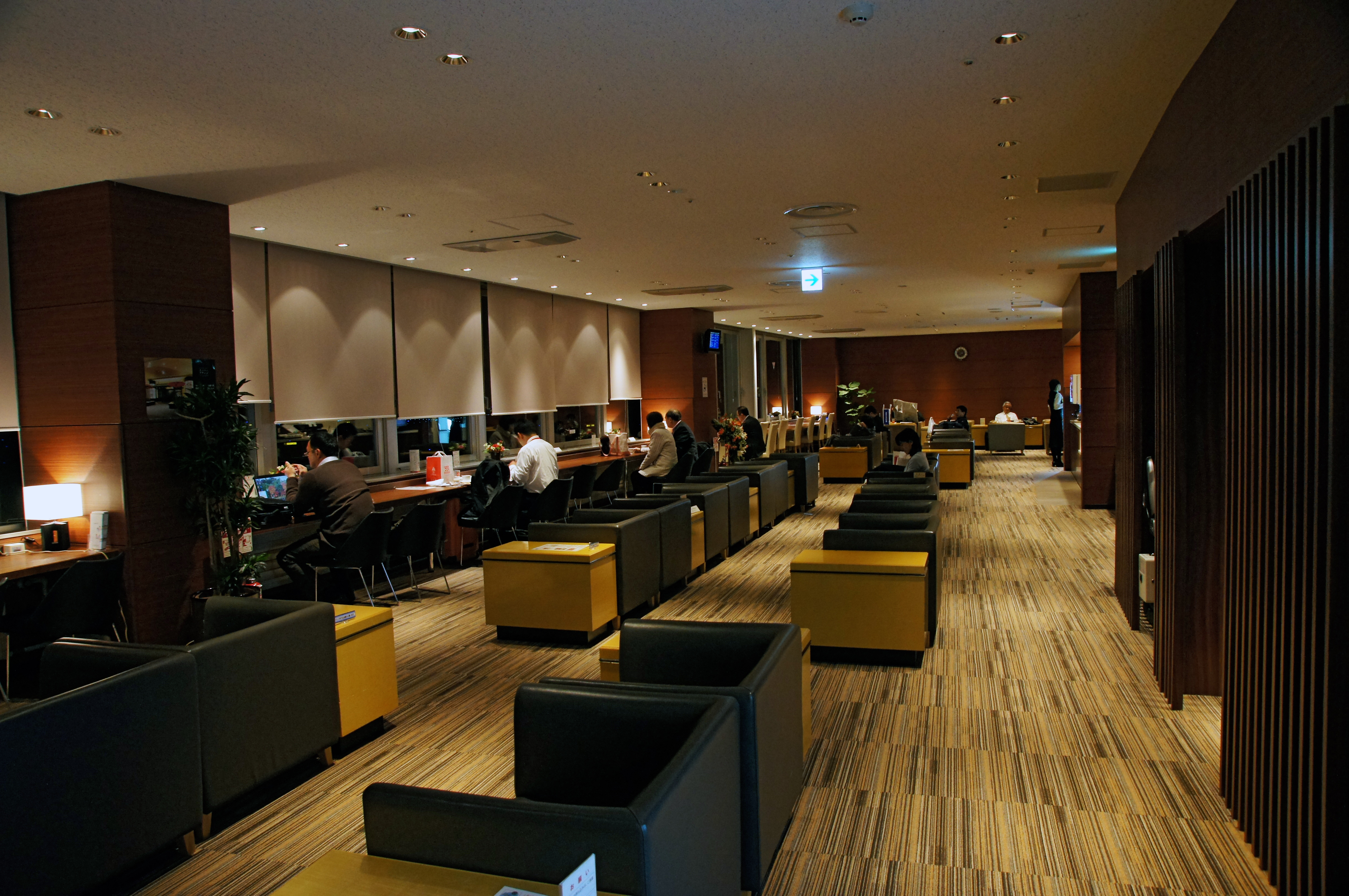 Super Lounge of New_Chitose Airport in Chitose, Hokkaido prefecture, Japan